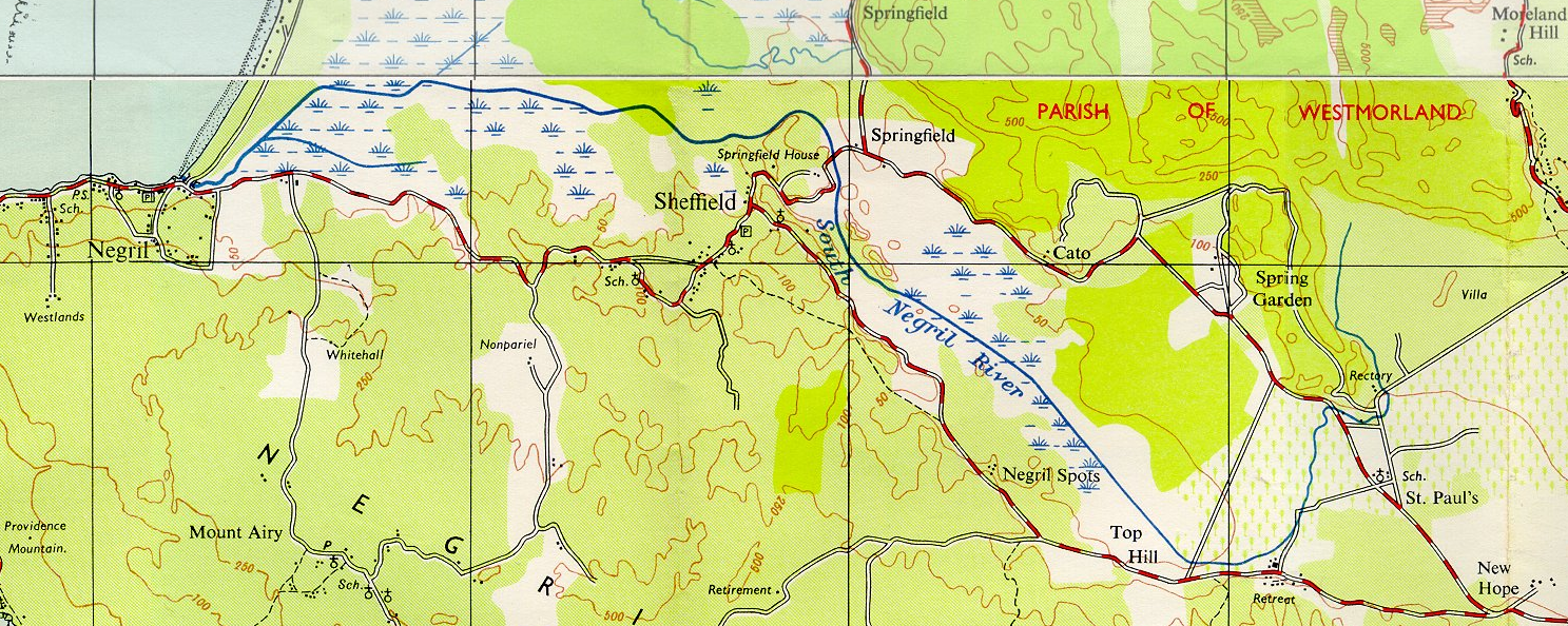 An extract from a montage of scans of the UK Directorate of Overseas Surveys 1:50,000 map of Jamaica showing the entire course of the South Negril River.